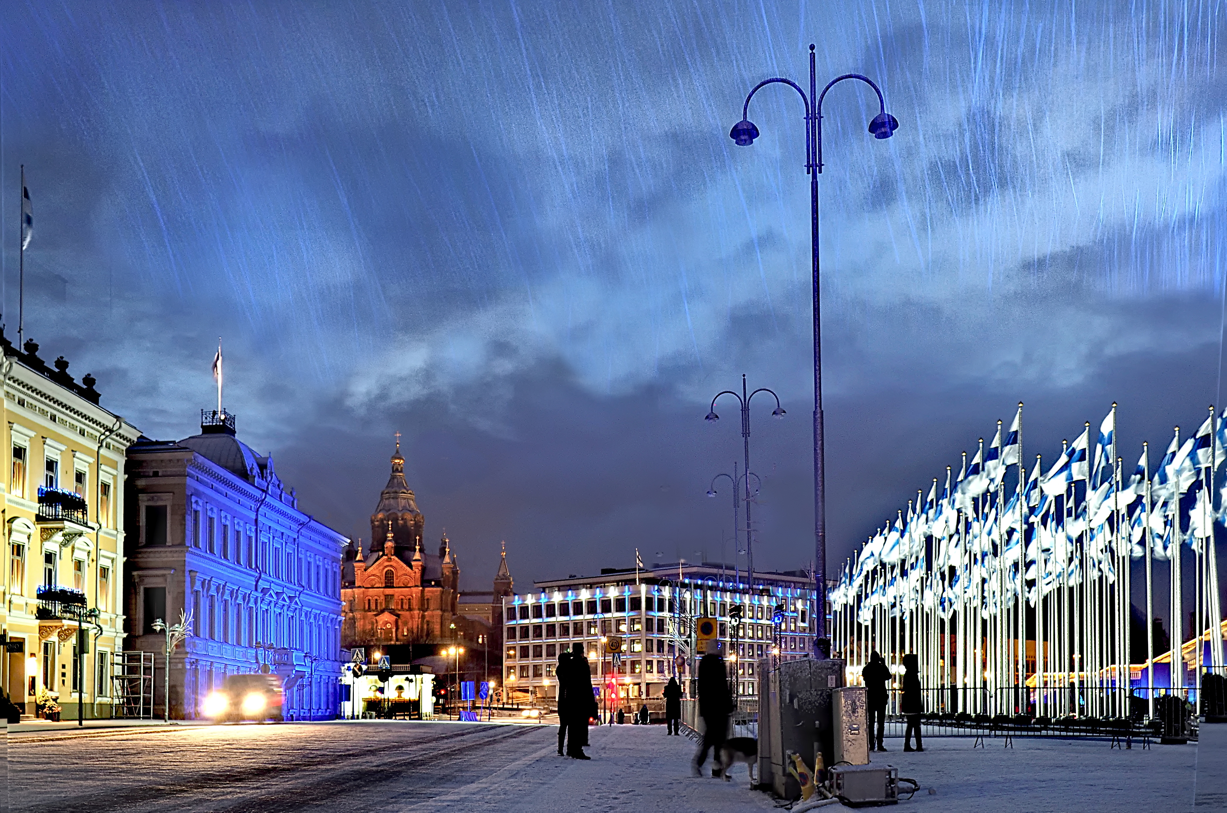 At the Market Square (Kauppatori) in Helsinki a hundred flags were announcing Finlands 100th anniversary on 6 December, 2017, when a snow storm broke out.